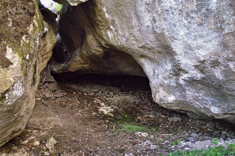 Hibikoiwa Caves in Takahata, Yamagata Prefecture, Japan